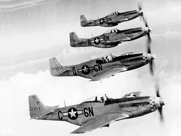 P-51 Mustangs the 505th Fighter squadron, 339th Fighter Group, based at RAF Fowlmere, England. All are P-51D's with the exception of 42-106657 (2nd from front) which is a P-51B. Serials visible are 44-72437 (front), 42-106657, 44-11427 (centre), and 44-11215 (top).